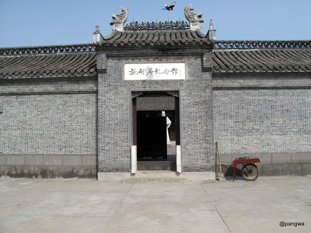 Memorial of Shi Naian, Dafeng, Yancheng, Jiangsu, China